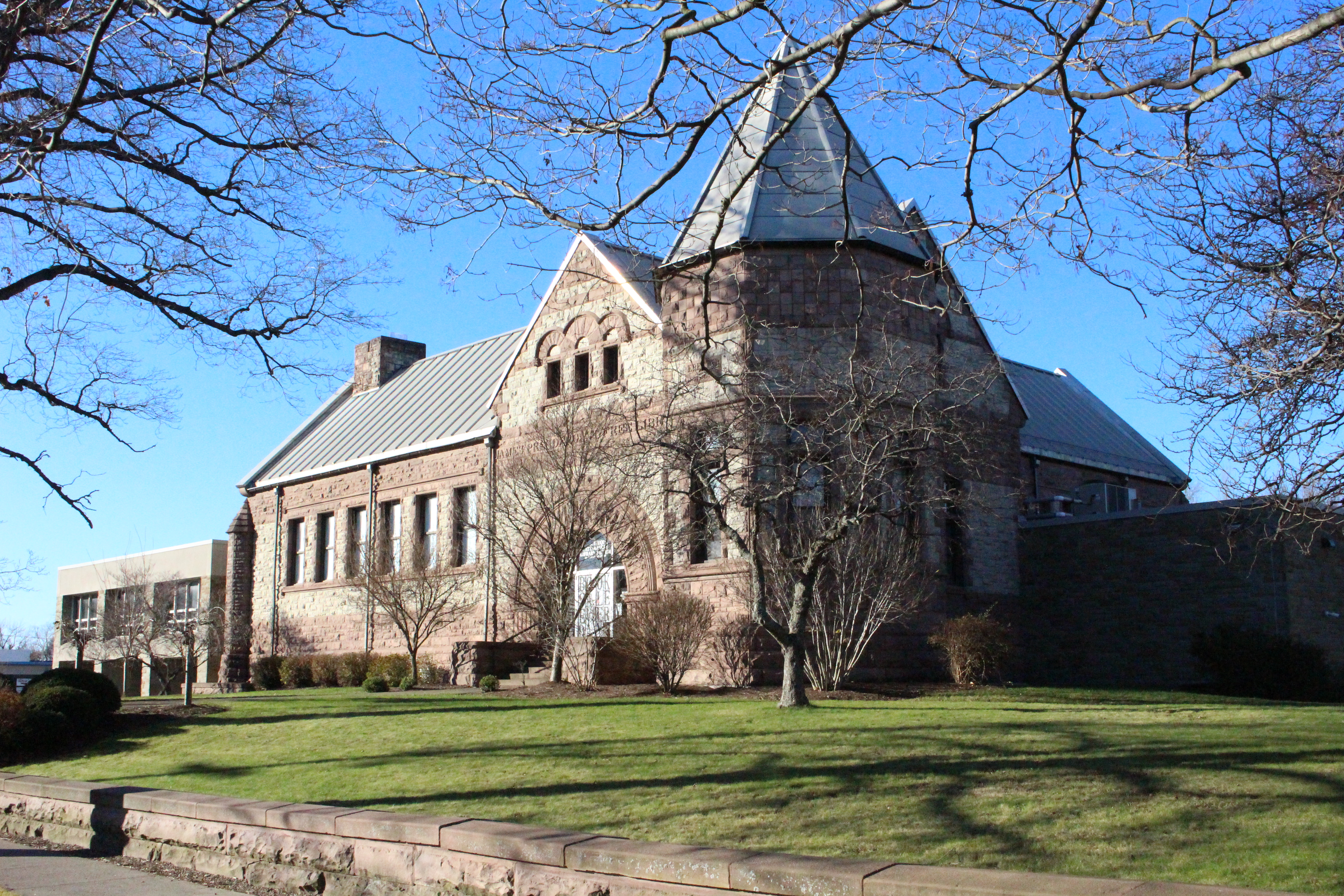 A photograph of the James Prendergast Library taken facing the northeast.